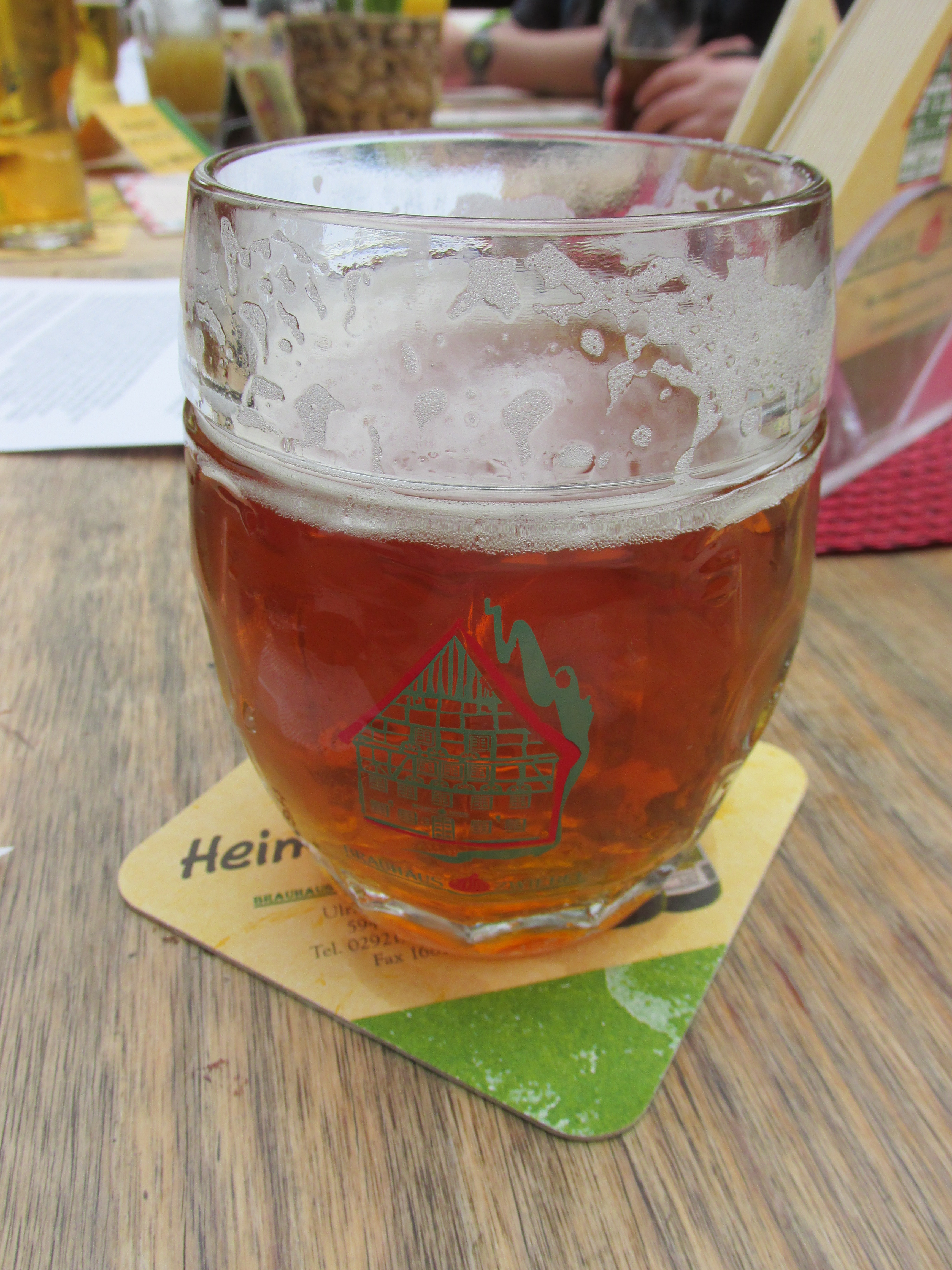 A glass of Soester Märzen at Zwiebel brewpub, Soest, Germany check usage